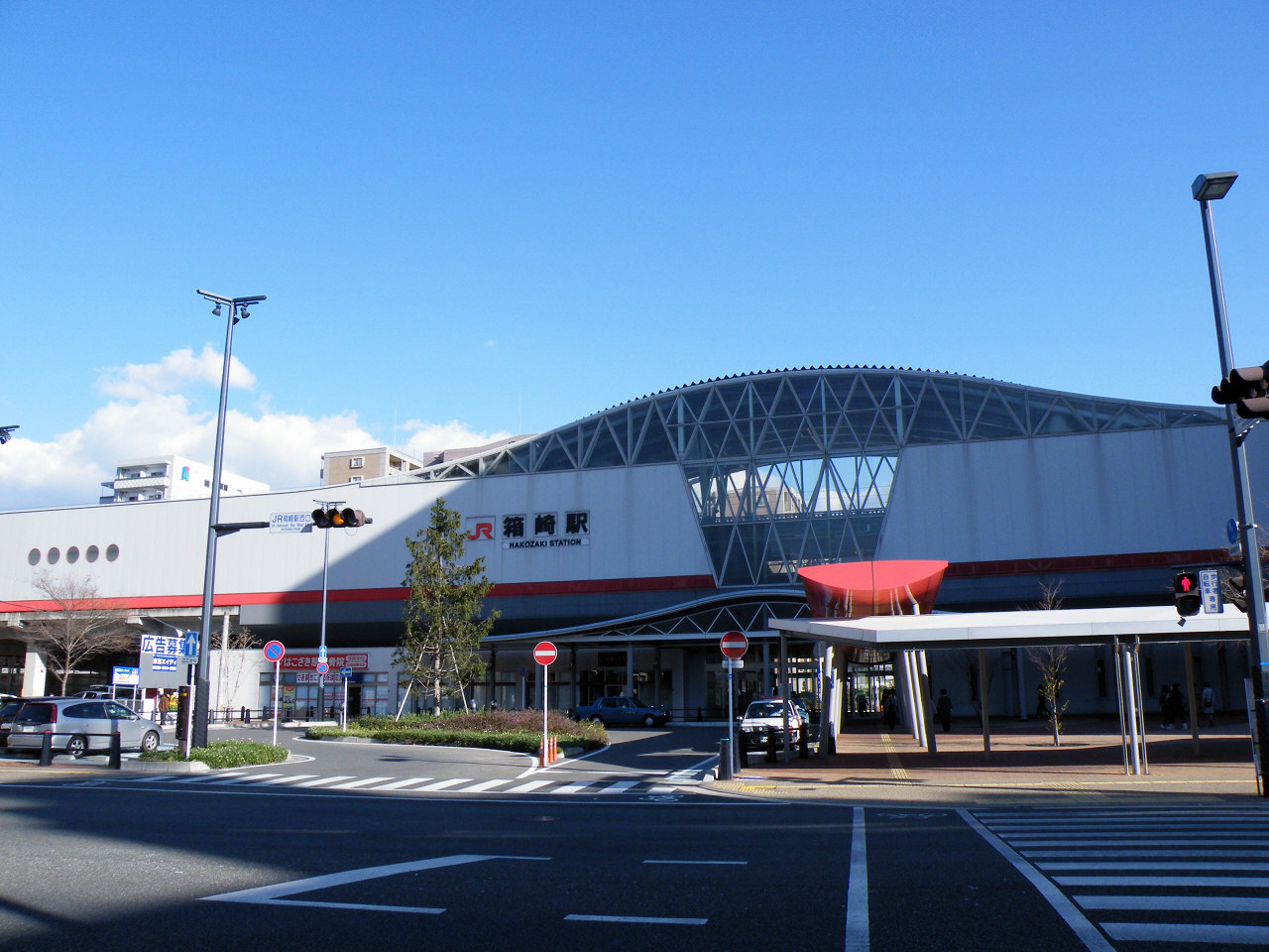 JRKyushu Hakozaki Station West Entrance(Kagoshima Main Line)